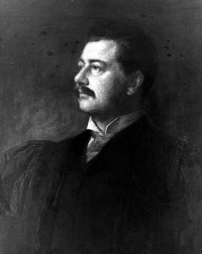 Seth Low Artist Eastman Johnson, 29 Jul 1824 - 5 Apr 1906 Sitter Seth Low, 1850 - 1916 Date c. 1890 Type Painting Medium Oil on canvas Dimensions 67.5 x 54.7cm (26 9/16 x 21 9/16") Credit Line Current Owner: Columbia University, Art Properties Website: Object number COO.214 CU Data Source Catalog of American Portraits See more items in Catalog of American Portraits